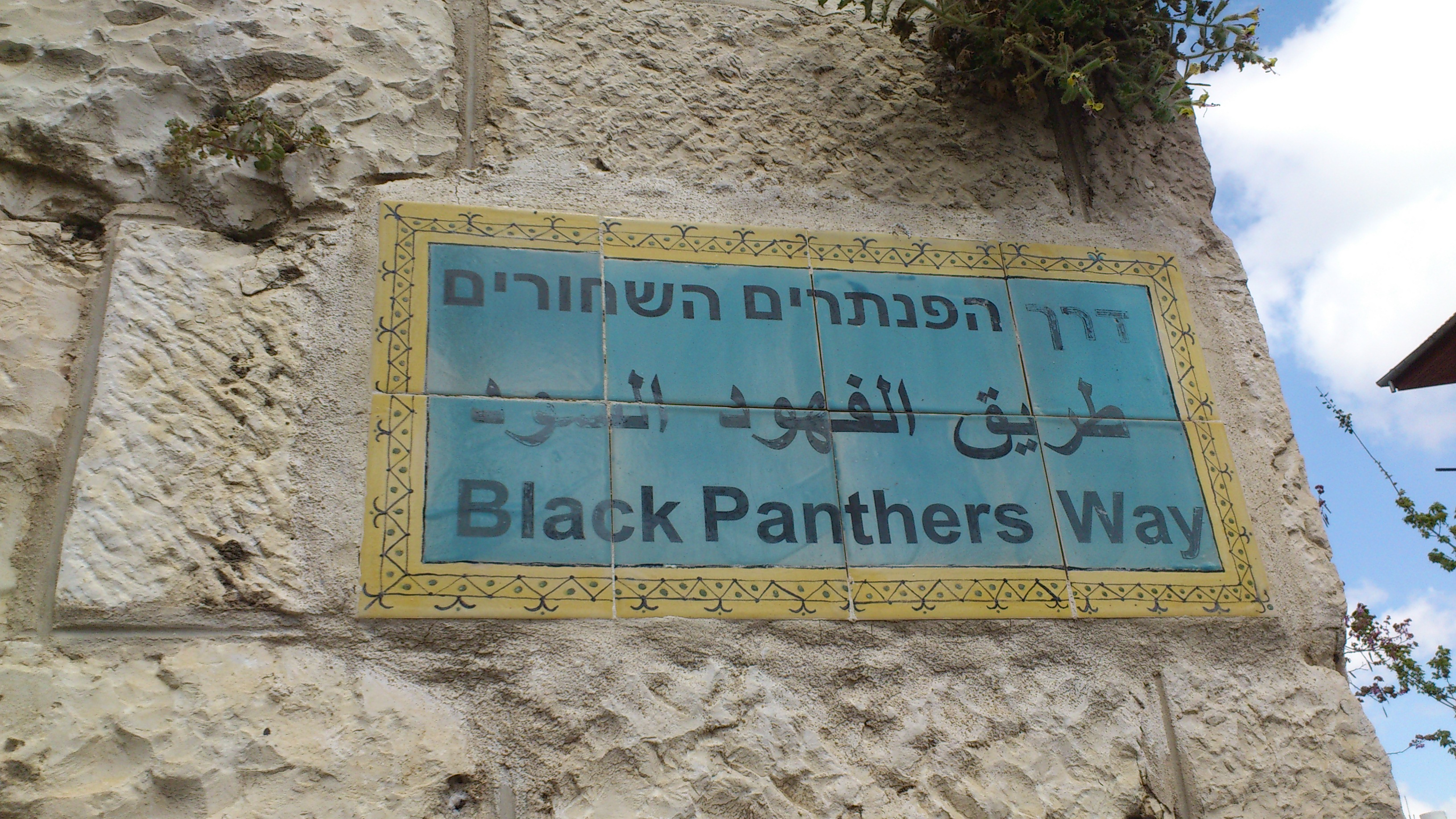 Musrara